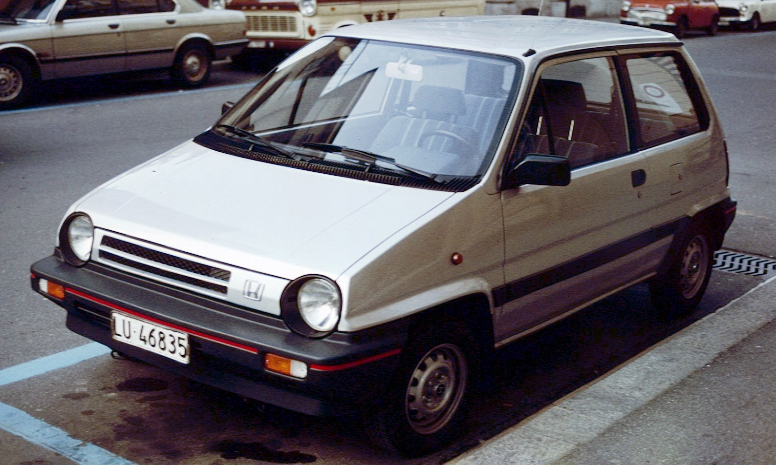 Honda Jazz 1980 Front three quarters